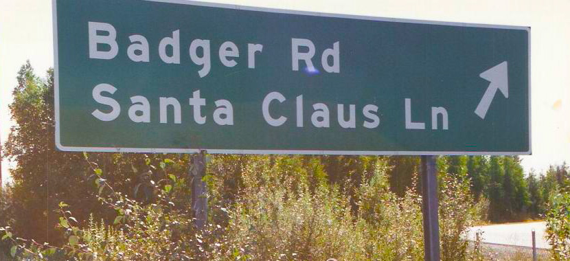 Highway sign indicating exit for Santa Claus Lane, North Pole, Alaska